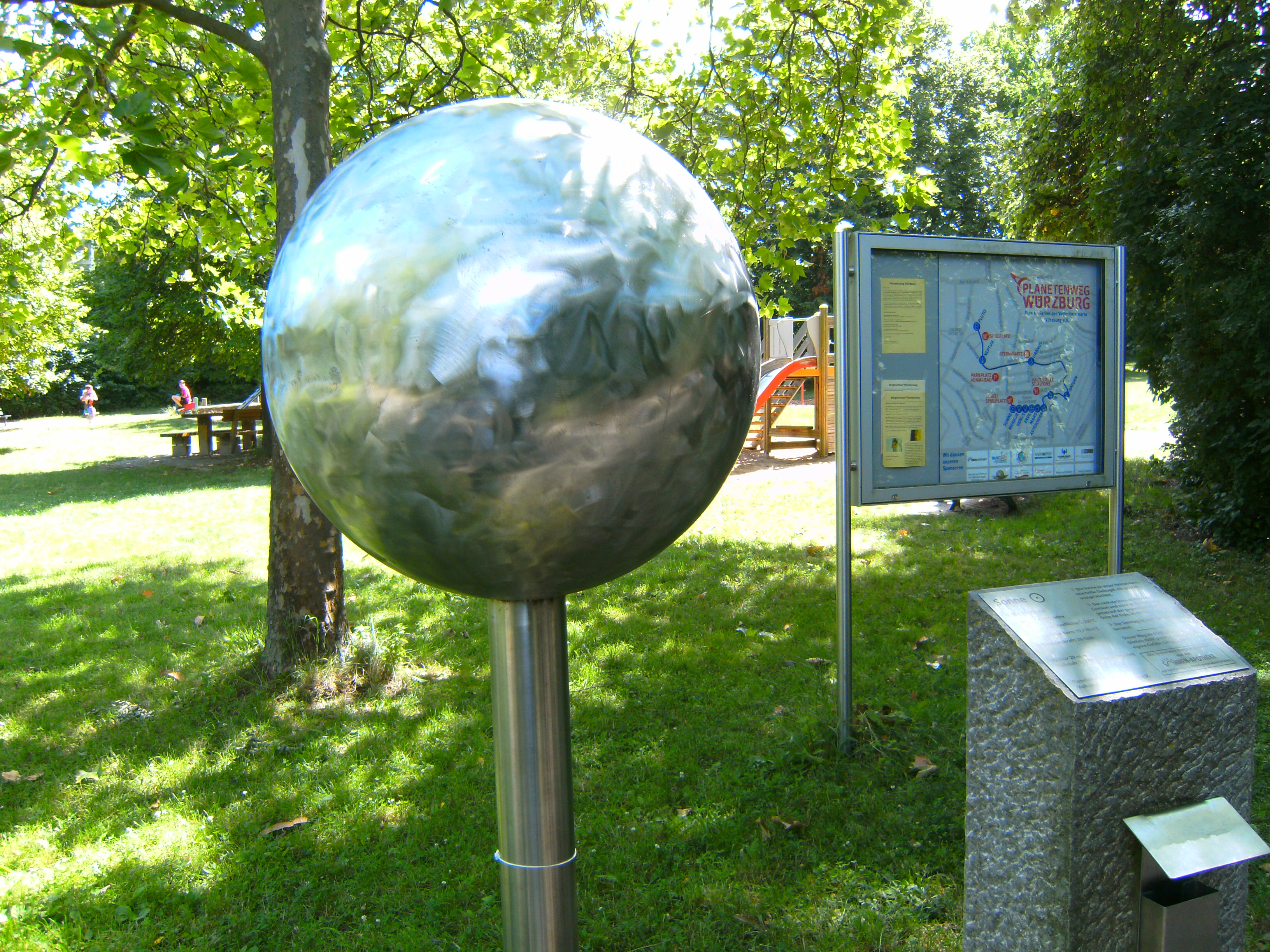 Würzburg, Germany: Path of planets in Oberes Frauenland/Gartenstadt Keesburg at the crossing of streets Ebertsklinge/Oberer Neubergweg.